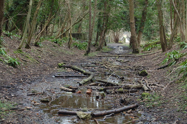 Disused railway line in Park Wood, Welsh Bicknor Photo is taken from the bricked-in railway tunnel on the old Severn-Wye line near Welsh Bicknor. The picture looks south along the line of the original track towards the bridge over the river Wye. The bridge is now for pedestrians only and forms part of the Wye Valley Walk. A WW2 pillbox to the left of the track guards the then railway bridge. Vertical rails found at both ends of the bridge are likely to be part of anti-tank defences hindering access for attacking forces to the bridge.